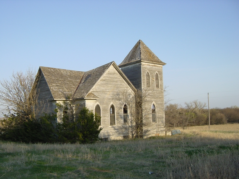 Photograph of the remains of the Kill Creek Presbyterian Church, taken in April, 2004. Photo taken by me and released to the public.